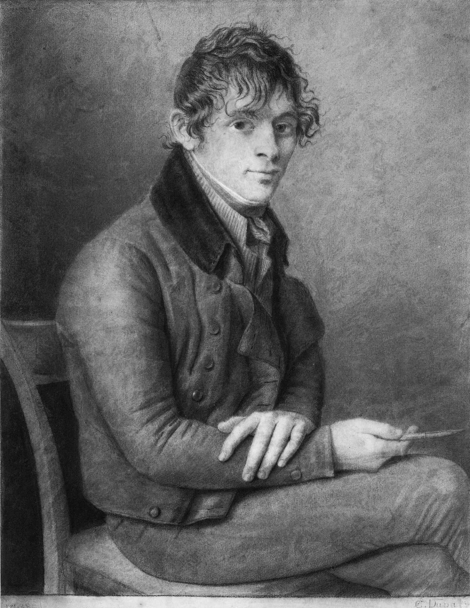 Self portrait charcoal 36 x 28 cm signed b.r.: C. Dupaty dated b.l.: 1808